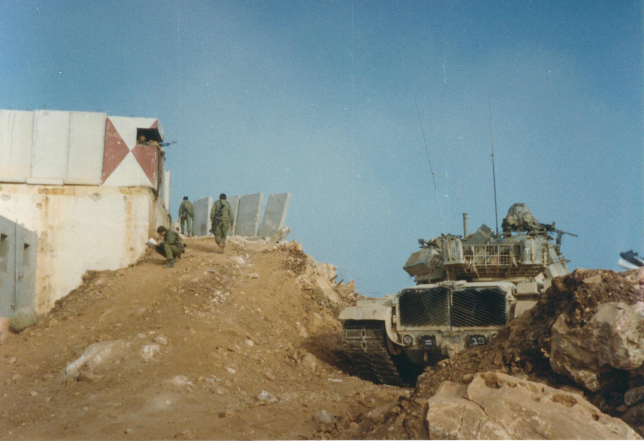 חיילי צה"ל בשביל הכניסה למוצב צד"ל מוצב בירכת חוקבן בשנת 1987 מסייעים בהעברתו ליוניפי"ל.